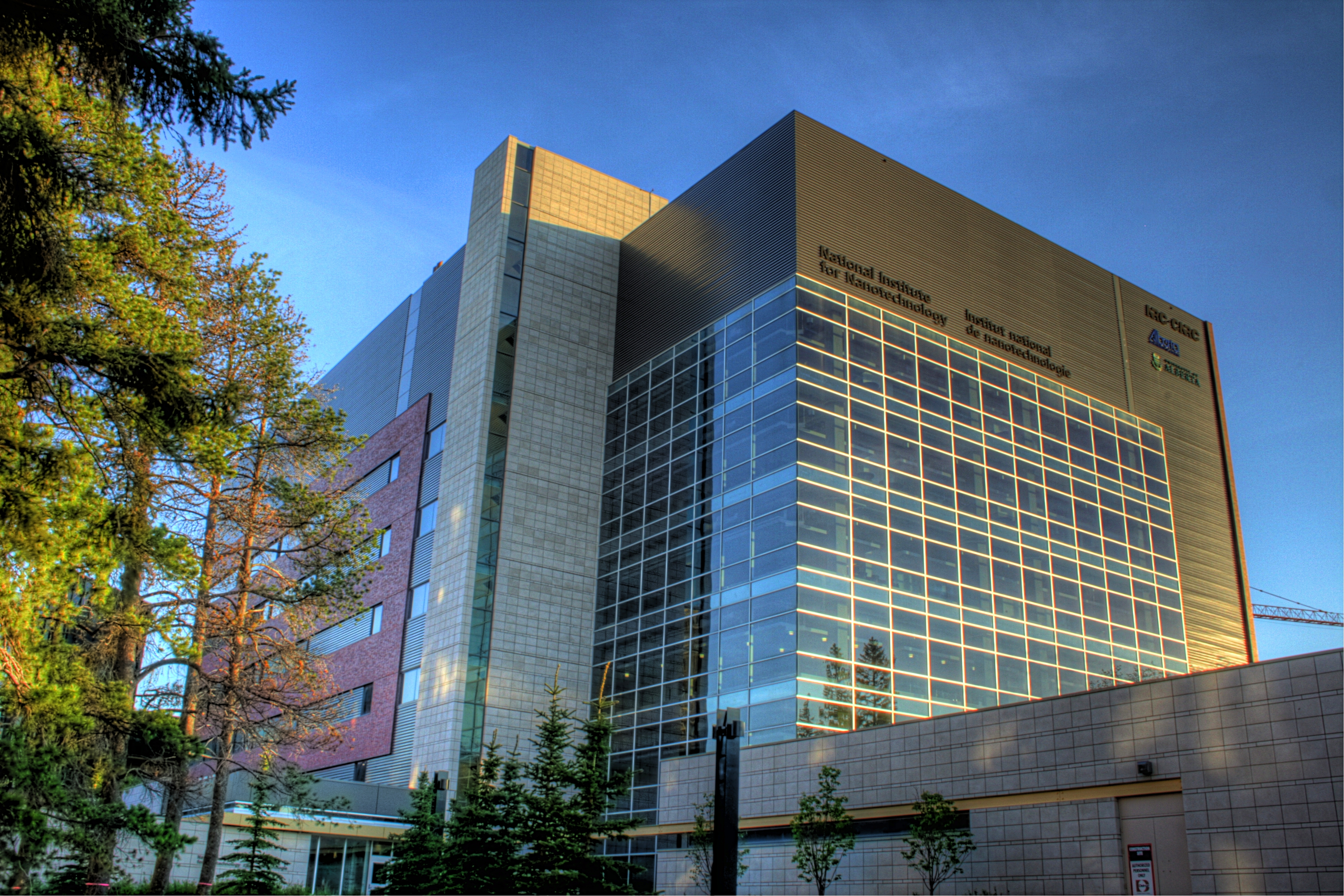 Nanotechnology Research Centre on the north campus of the University of Alberta in Edmonton, Alberta, Canada.